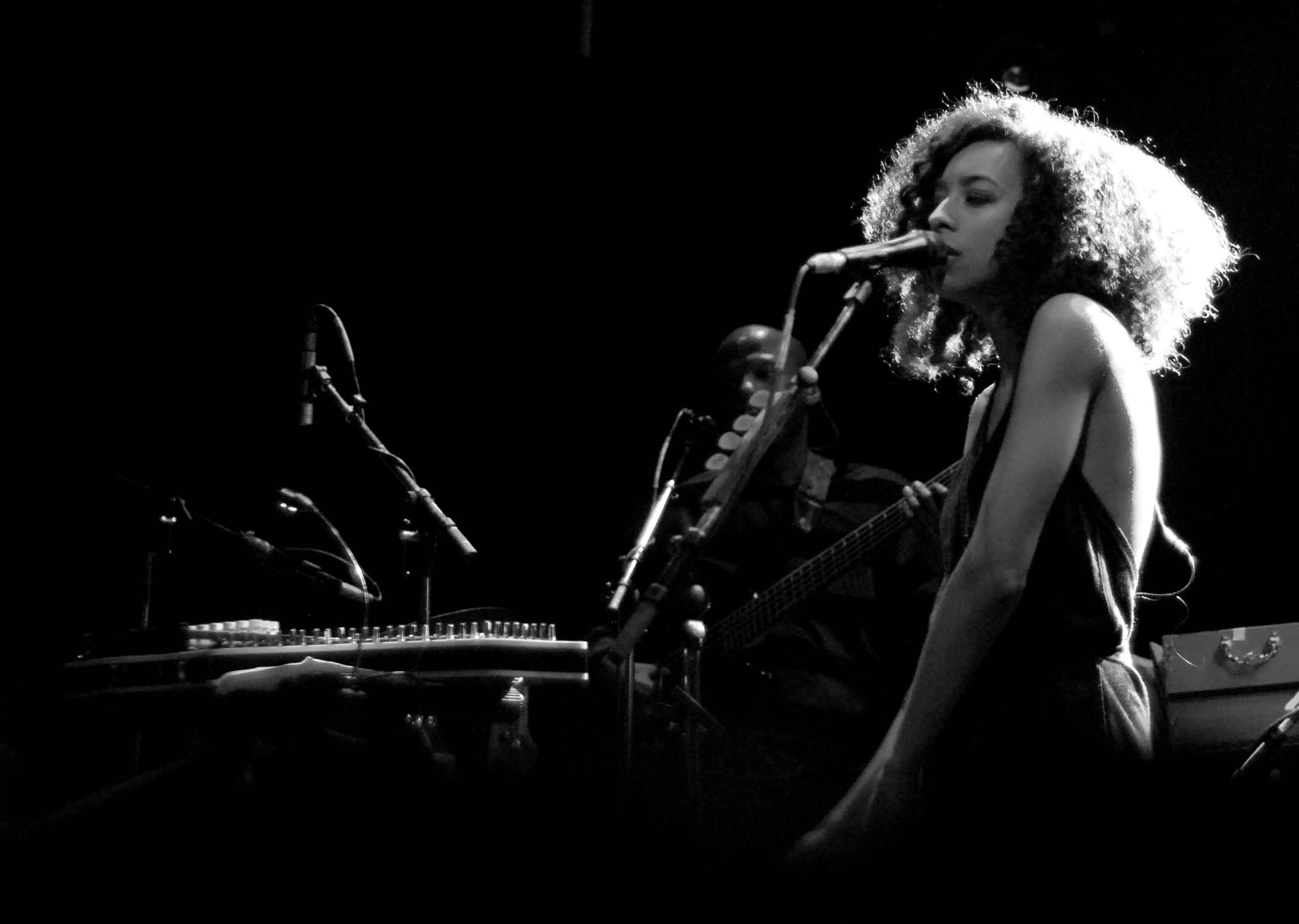 British singer Corinne Bailey Rae is one of Reinhart's modern musical influences